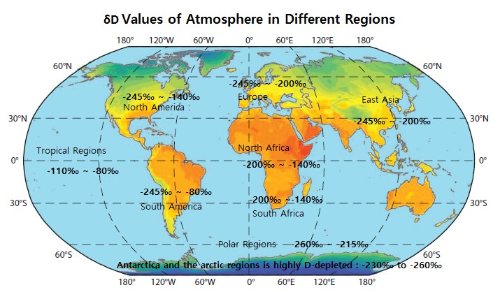 Modified by inserting the data from a paper [Frankenberg C. et al.(2009) Dynamic Processes Governing Lower-Tropospheric HDO/H2O Ratios as Observed from Space and Ground. Science 325, 1374–1377.] on the map from [Annu.Rev.Earth Planet.Sci.2010.38:161-187.]